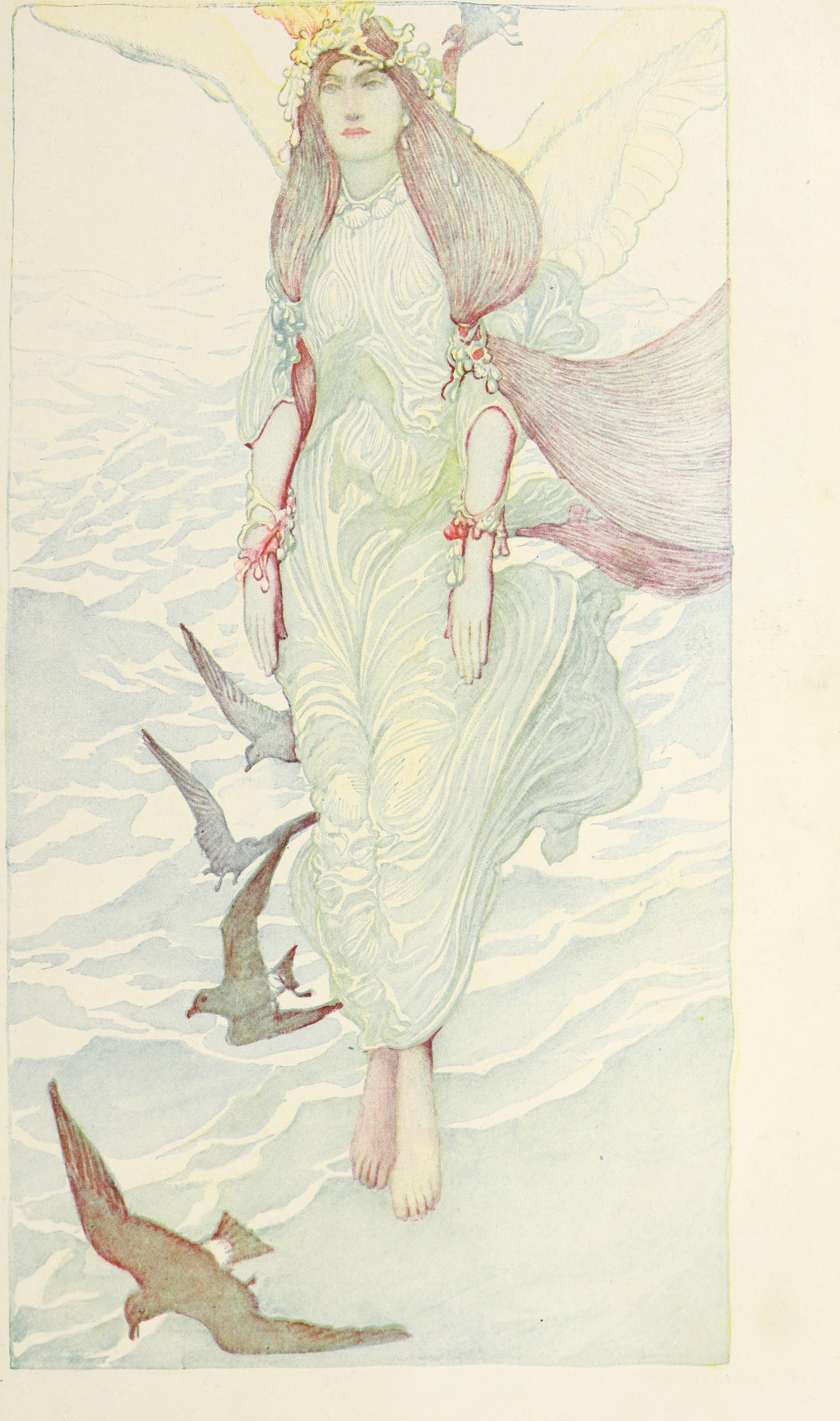 Title: Harper's New Monthly Magazine Volume 104 December 1901 to May 1902 Year: 1902 (1900s) Authors: various Subjects: Publisher: New York: Harper & Brothers Publishers Text Appearing Before Image: er Cara —one of the pseudonyms of the Virgin Mary. But neither explanation supplies the lost identity to that strange and mysticalbeing; nor does it satisfy the popular sense of a vast, intangible presence that fillsthe spaces of salt air and of limitless reaches of briny ocean. For one thing, indeed,is known of her: she is the forerunner of storms. With the little black petrels drift-ing about her feet in skimming- delight, with the wind whining in her salt hair,and with her salt raiment floating about her, she comes from somewhere in thegreat white North, and behind her follows, thundering, the huge ocean storm, bring-ing wreck and destruction in its path. In this quality of storm-brewer she is, as itwere, the wife of Death, and the mother of the Tempest. Embodied in such athought, she very much more nearly fills the popular image of her in a satis-factory fashion than in the thinner raiment supplied by the somewhat,pallid explana-tions of the scientists and students of folk-lore. Text Appearing After Image: '